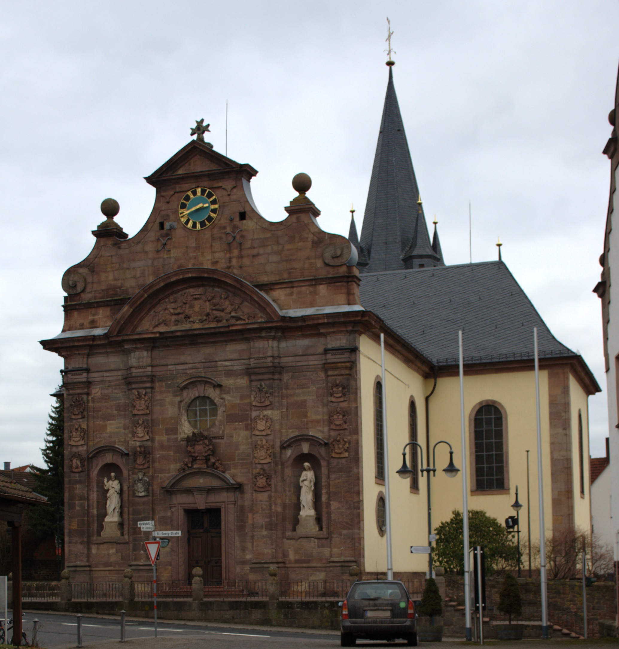 Catholic Church St. Georg (porch) in Grossenlueder / Hesse / Germany